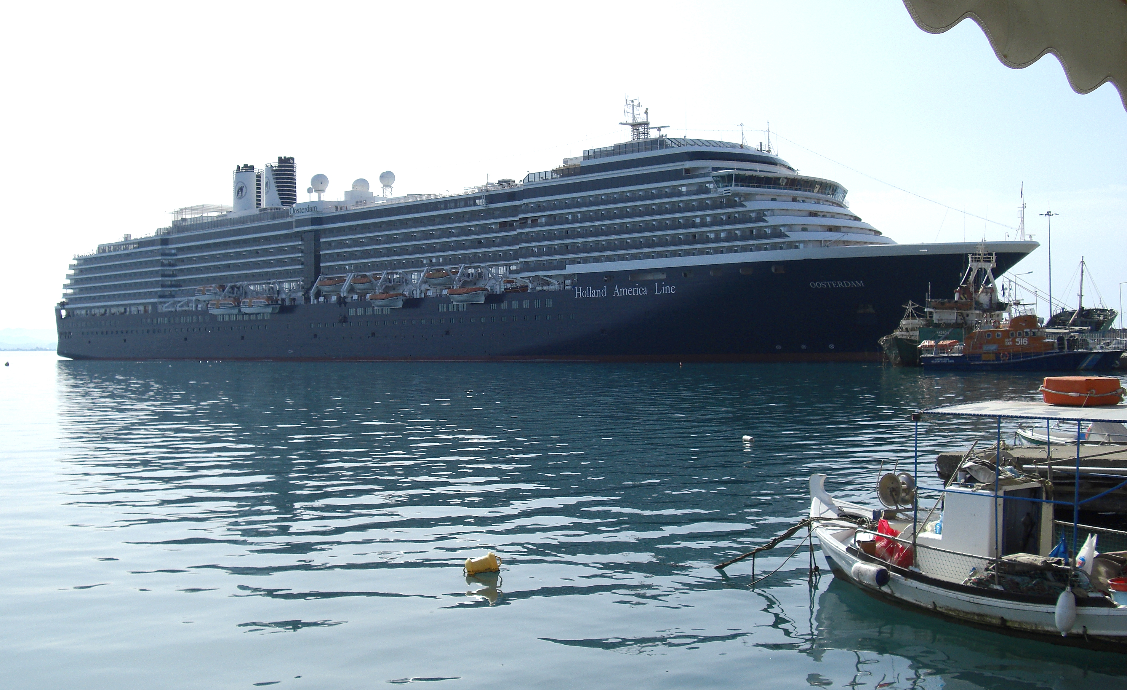 MS Oosterdam, a cruise ship operated by the Holland America Line in the harbour of Katakolo in Greece.